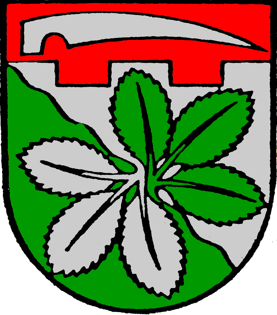 coat of arms of the German municipality of Nieste